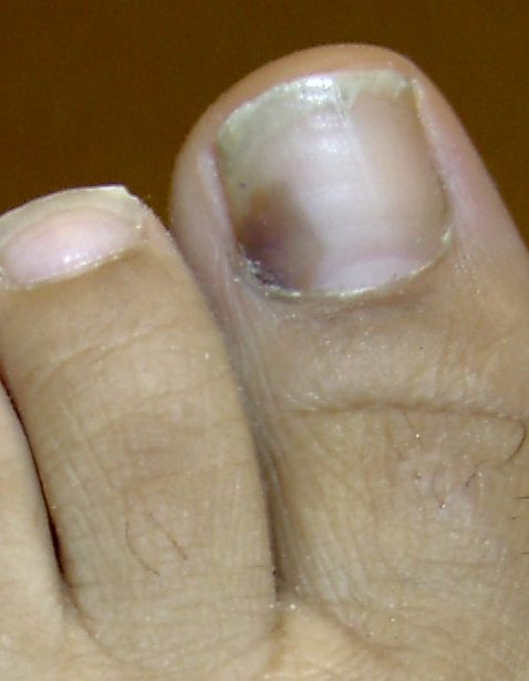 Taken in my medical practice by DrGnu. I hold the agreement. There is no identifier in the picture.